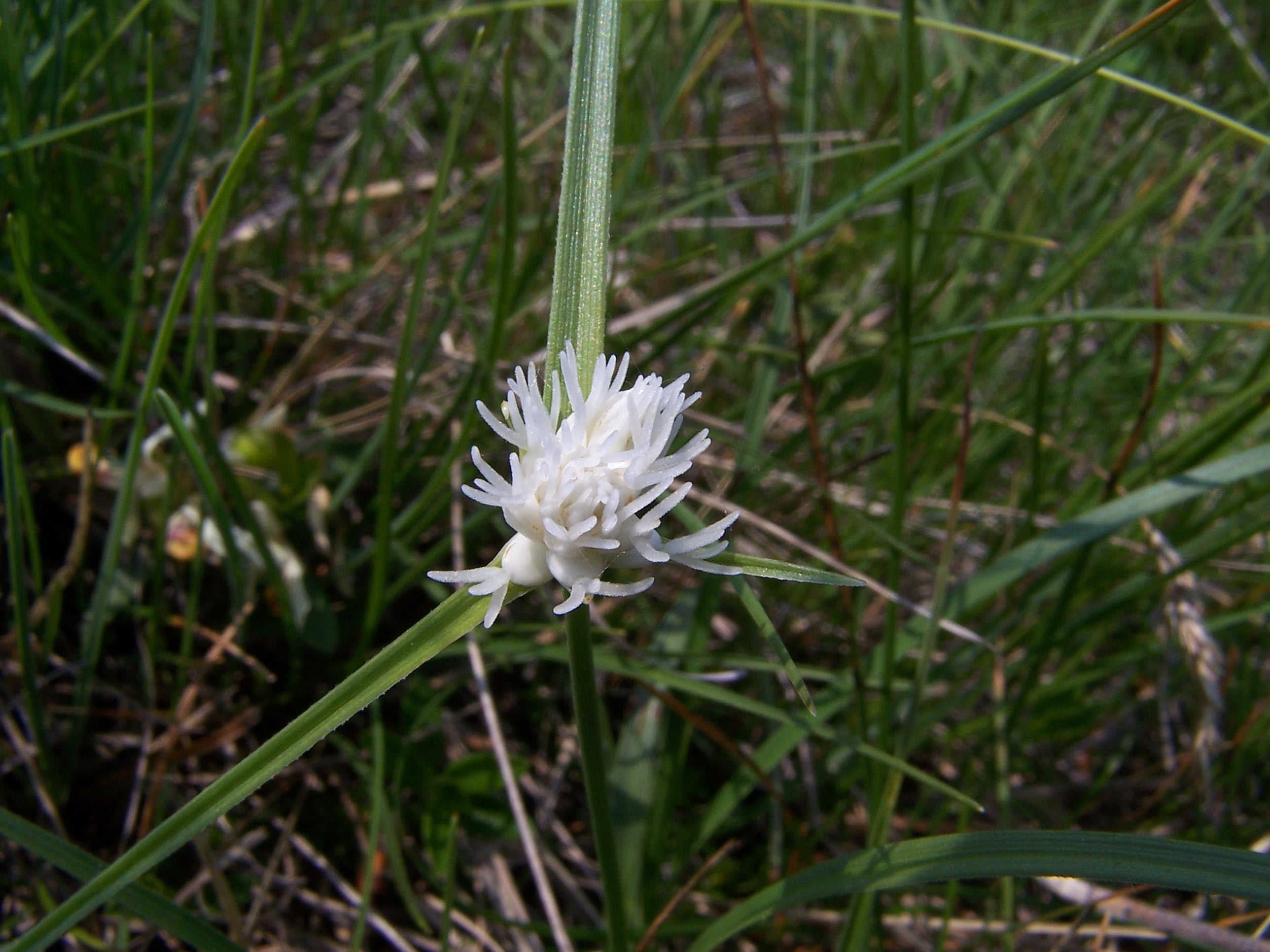 Description: Carex baldensis female flowers, Bergamasque Prealps, Bergamo, Italy, may 2005. Source: Own picture Author: User:marcobarci